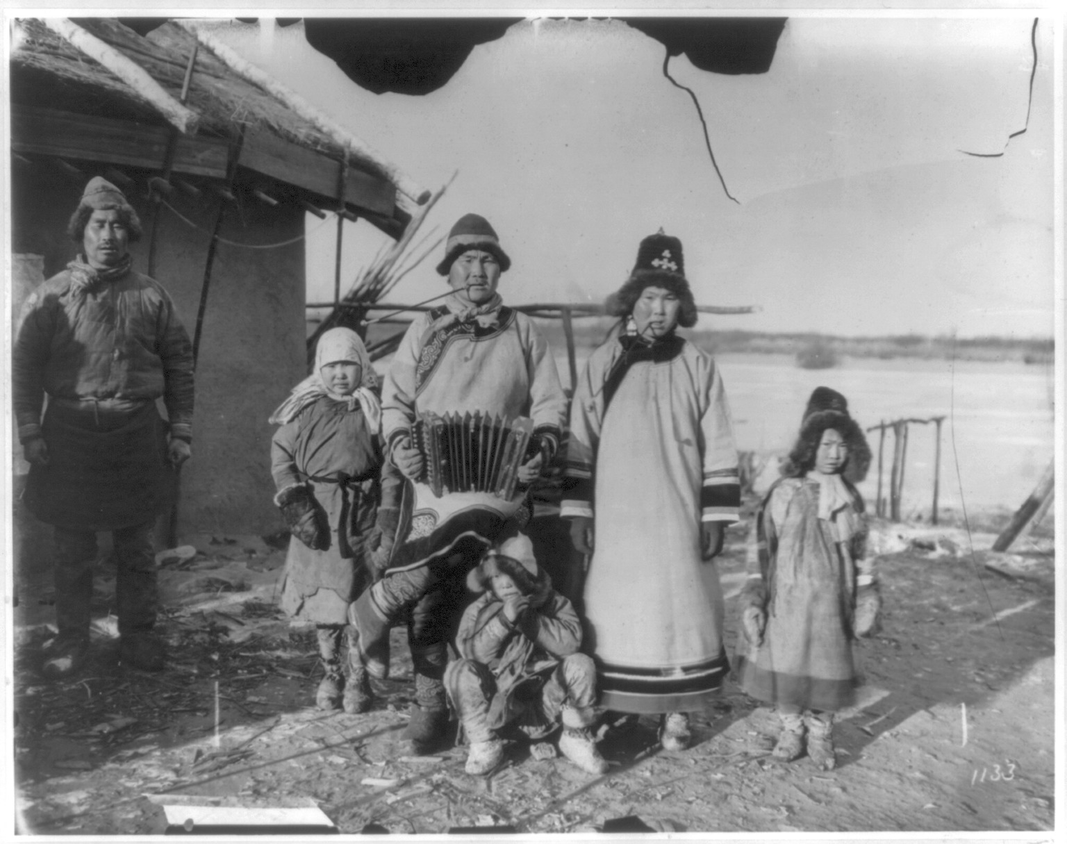 Title: Goldi family group, north of Khabarovsk Physical description: 1 photographic print : gelatin silver ; 8 x 10 in. or smaller. Notes: Forms part of: Jackson, William Henry, 1843-1942. World's Transportation Commission photograph collection (Library of Congress).; Gift; Colorado Historical Society; 1949.; Similar to lantern slide W7-1133.; Photographic print made by LC from Jackson's vintage film negative.